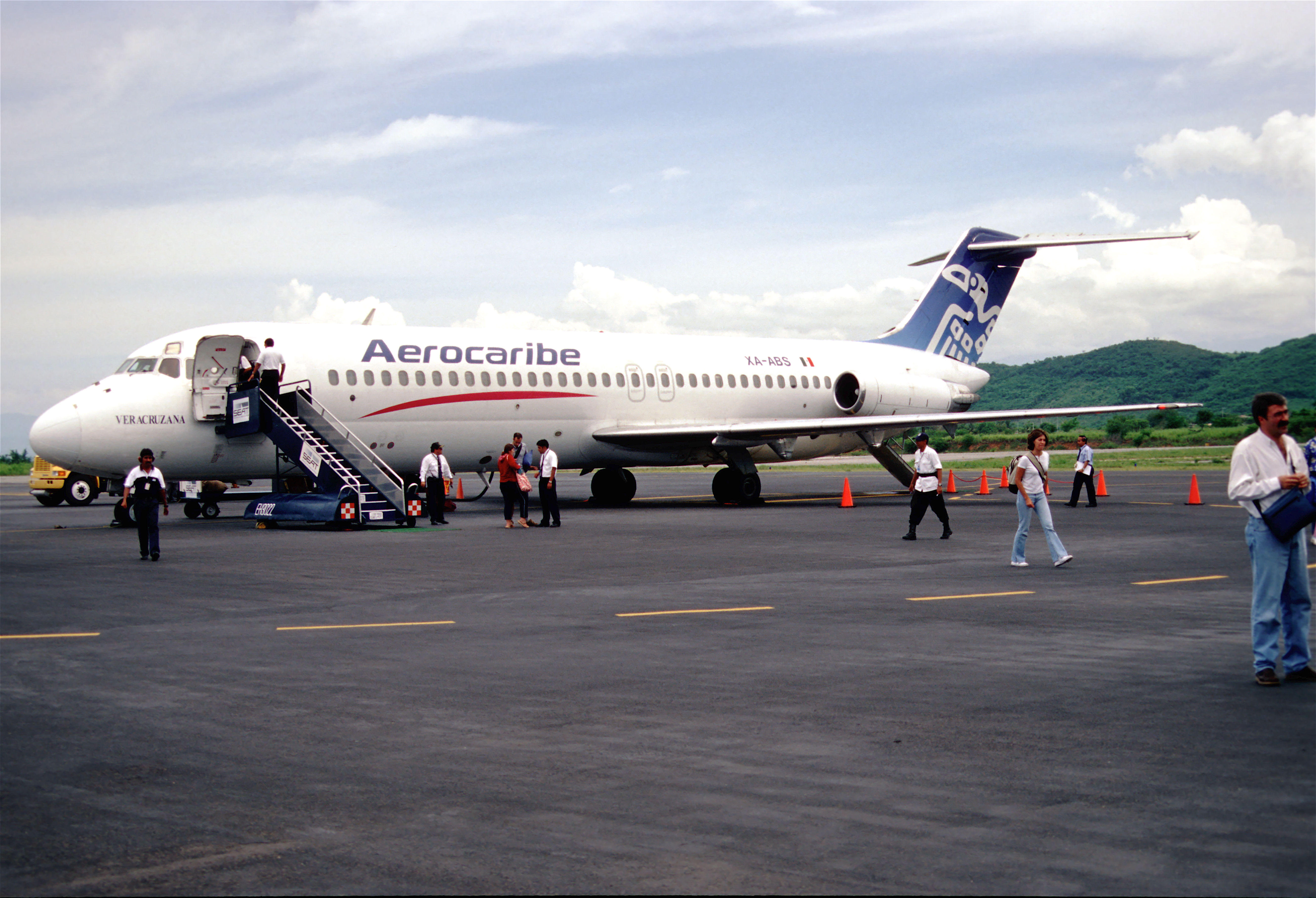 My ride from MEX that day...